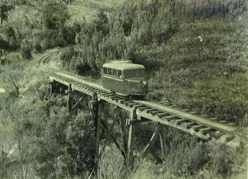 Vauxhall railbus on the threstle bridge of the two foot gauge Lake Margaret tram in South Western Tasmania, photo by LB Manny, 1962